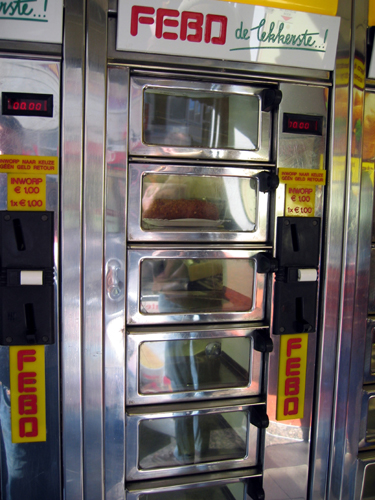 Dutch cuisine